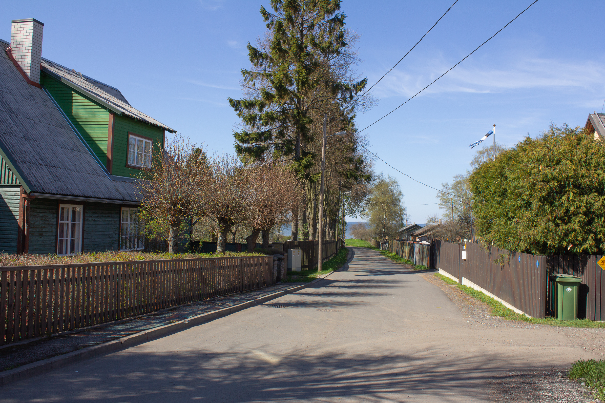 Neeme Street